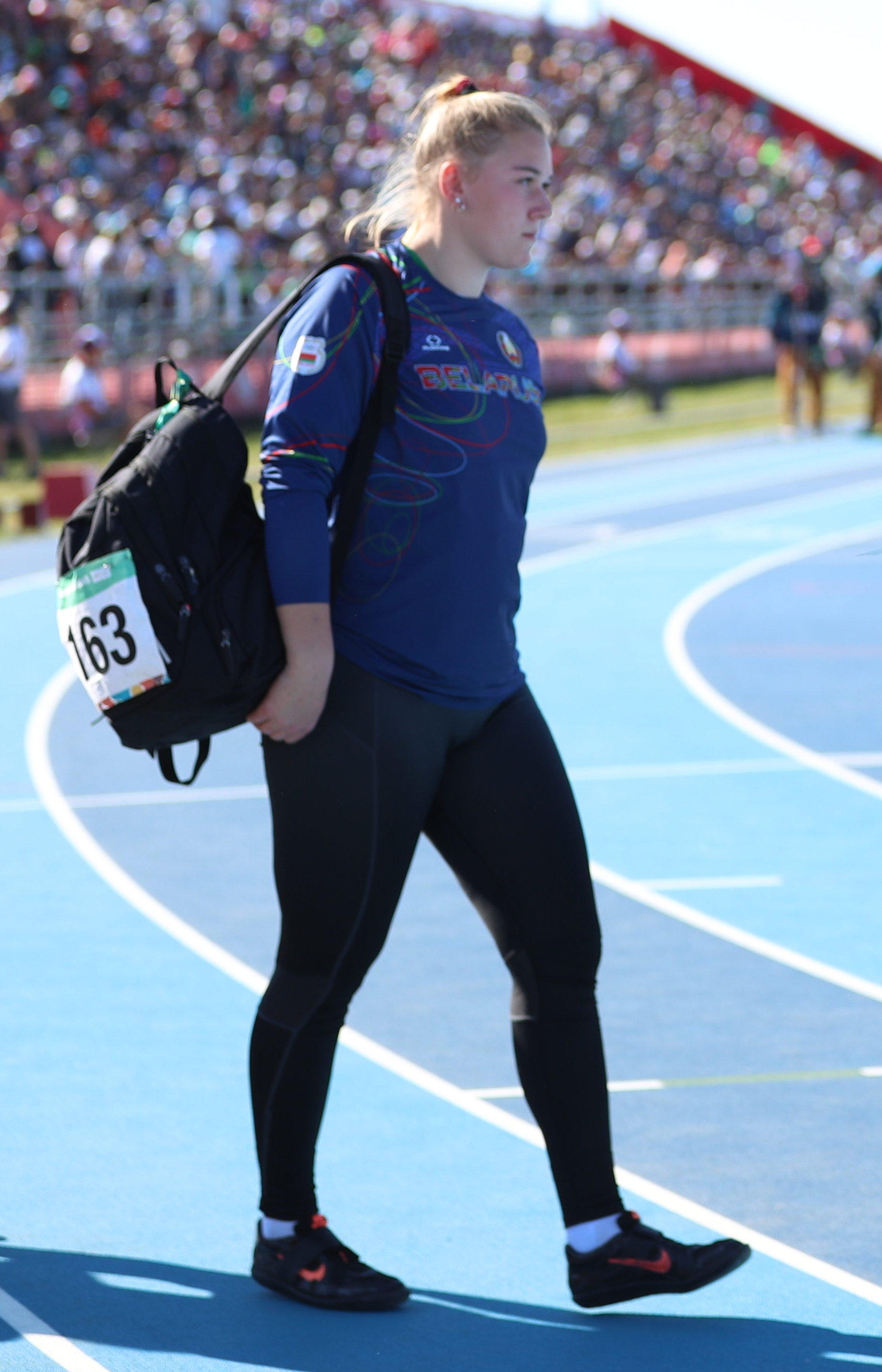 Athletics, Girls' Shot put Stage 2, at the 2018 Summer Youth Olympics in Buenos Aires on 15 October 2018.